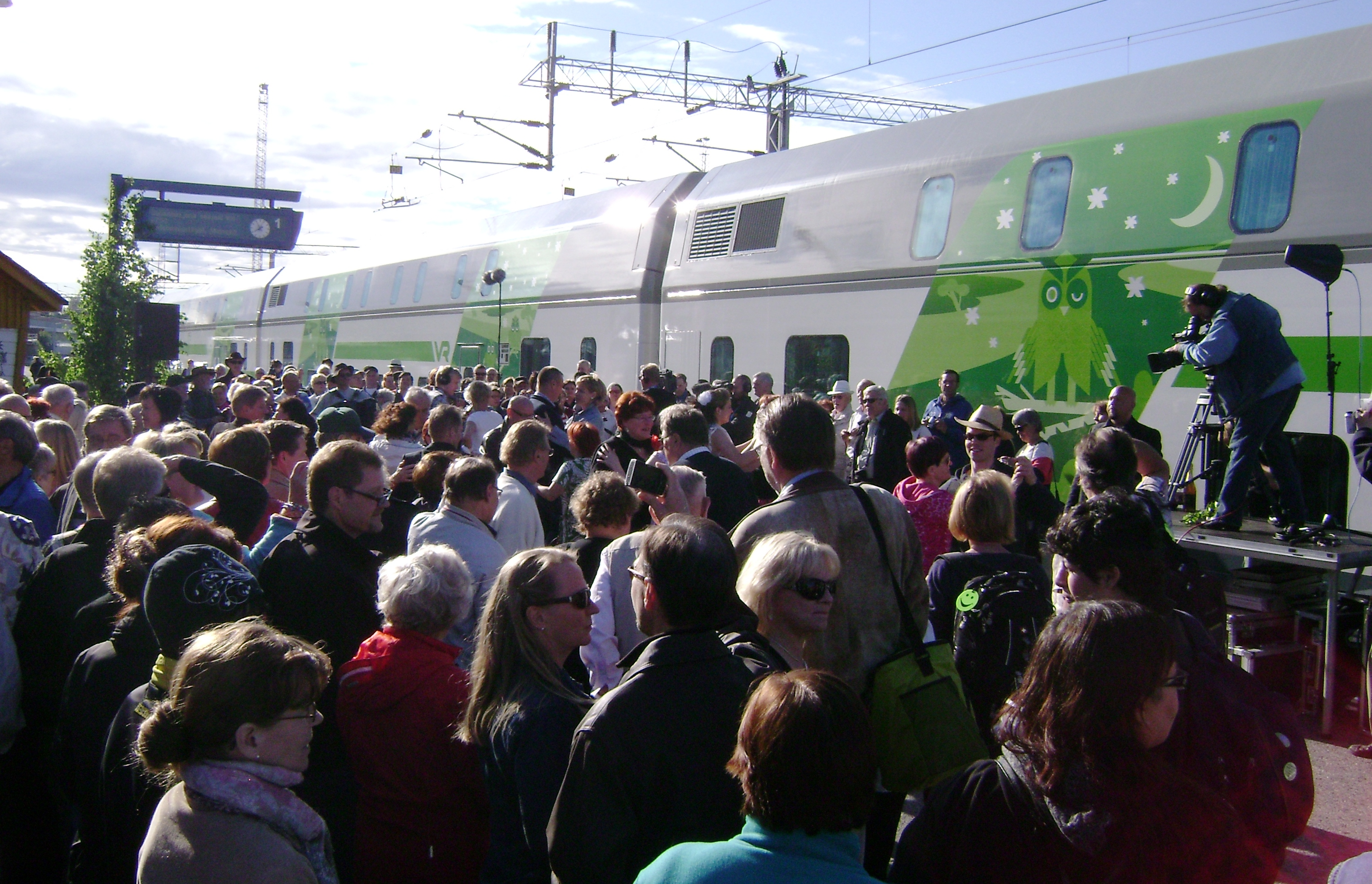 Midsummer Train at Rovaniemi railway station.